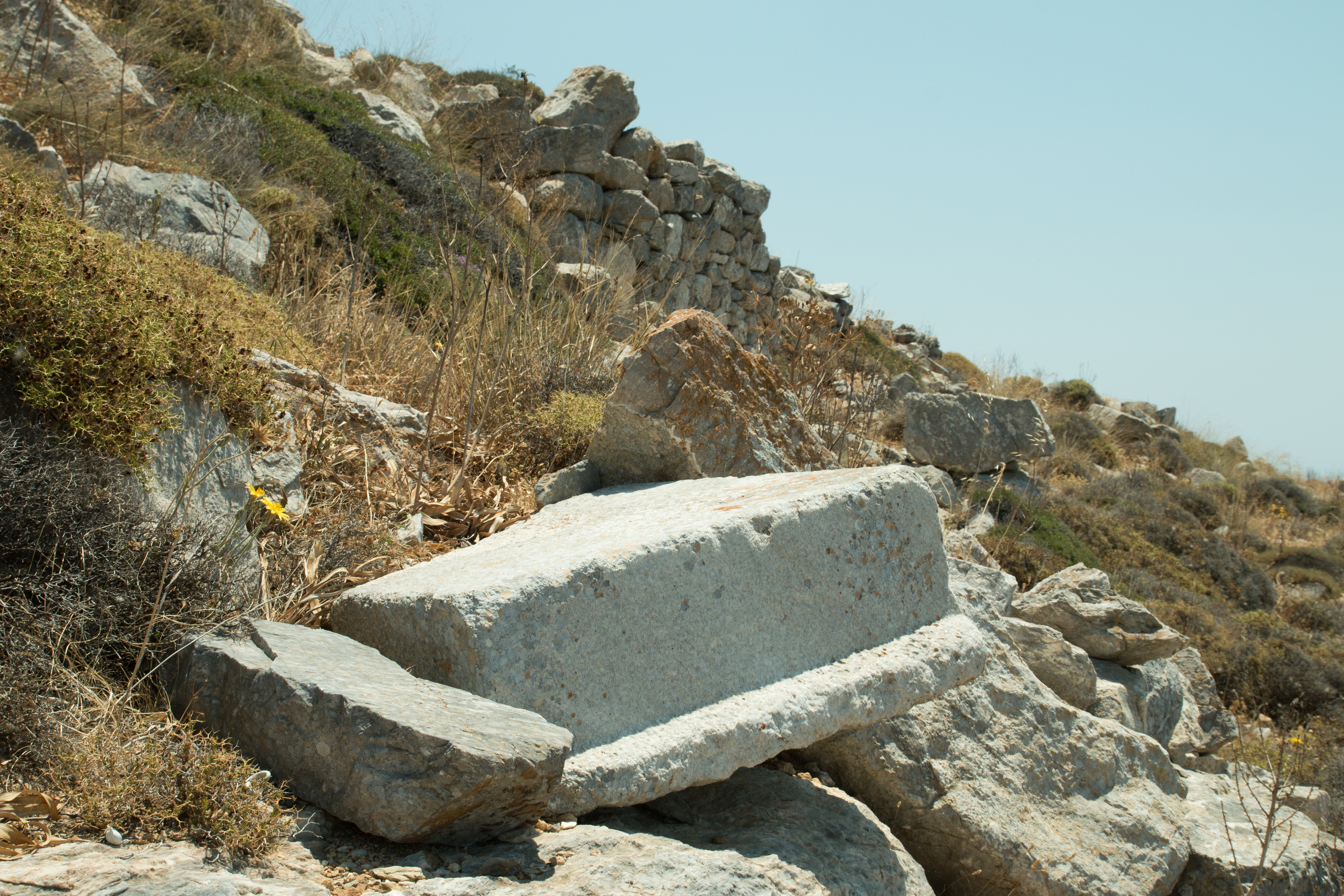 Ruins of the ancient city of Anafi at Kasteli.